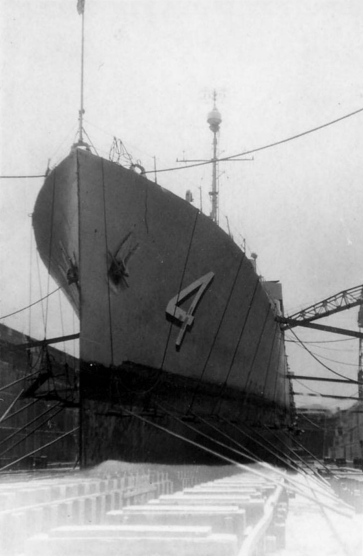 Bow view, taken while she was drydocked while being prepared for transfer to the Republic of Korea, circa 1952. Photographed by James Edward Taylor, who was then a member of the ship's crew. Location is probably Yokosuka, Japan